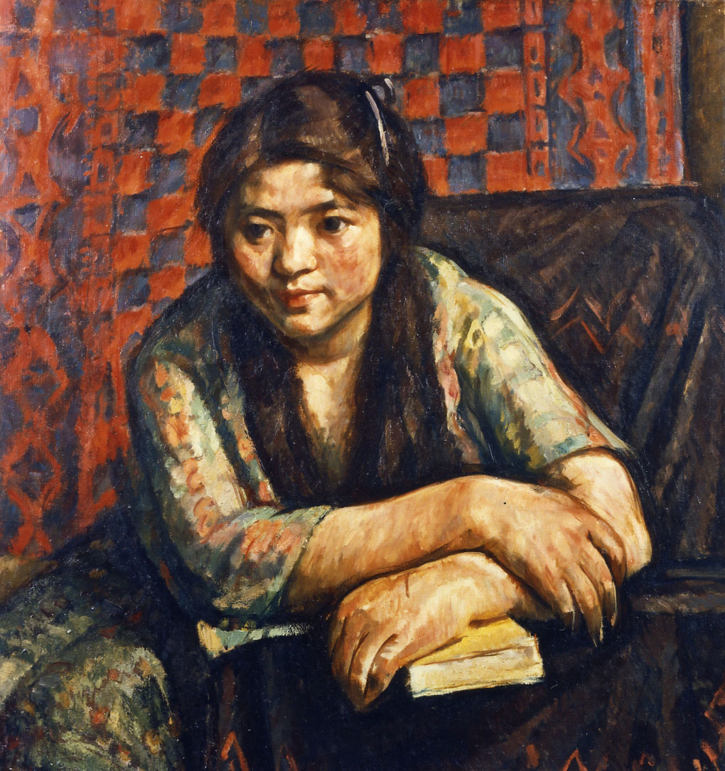 A Girl